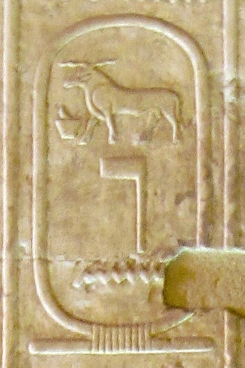 Cartouche 11, Abydos King List. Temple of Seti I, Abydos, Egypt